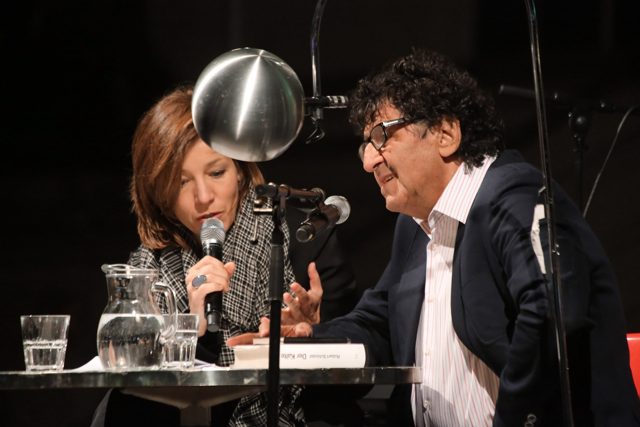 Clarissa Stadler and Robert Schindel, o-töne 2013 at Museumsquartier in Vienna.